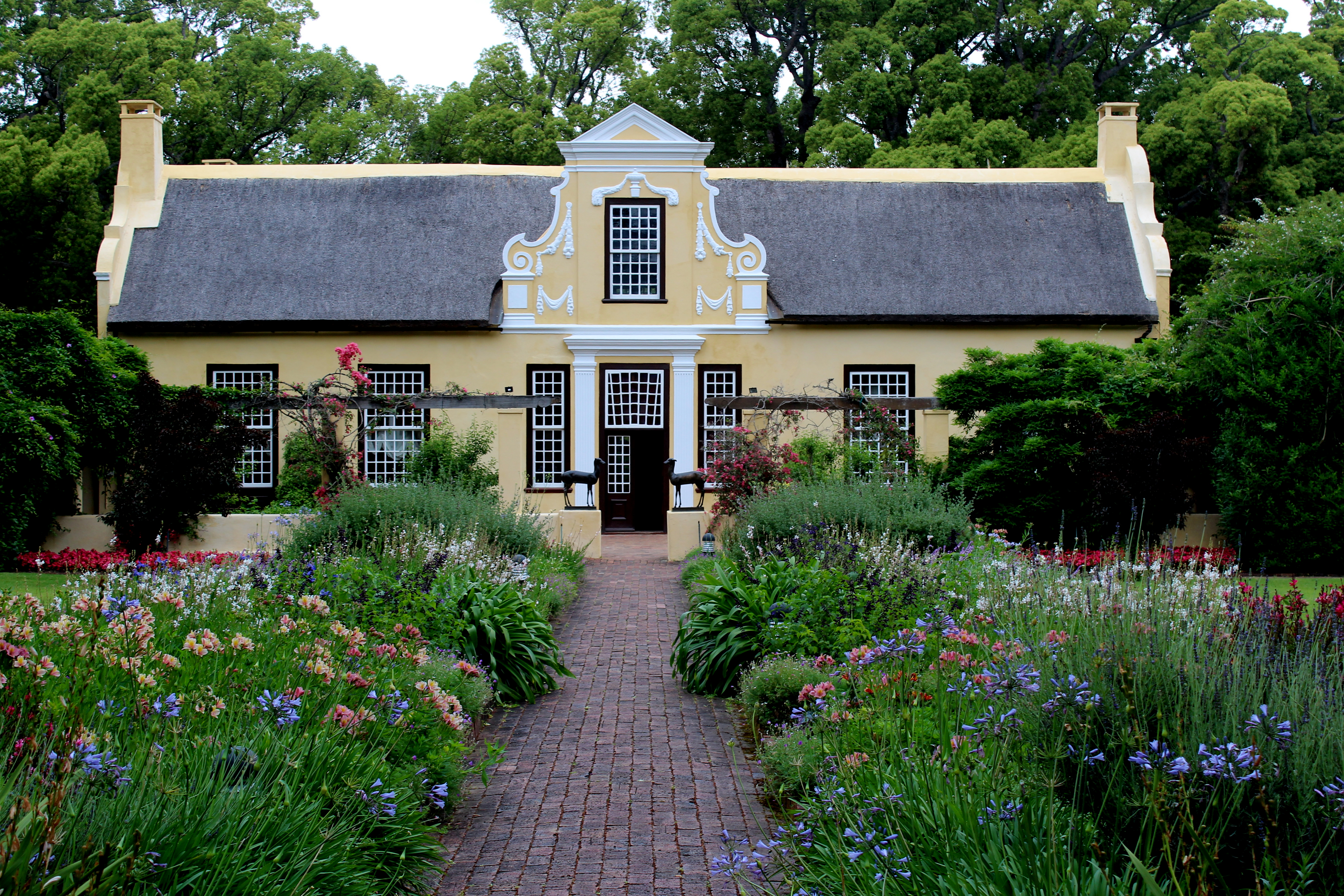 North-facing facade of the Vergelegen Wine Estate library, Somerset West, South Africa. The estate was established in 1700 by Willem Adriaan van der Stel, then governor of the Cape Colony. The library, built in 1816, was originally a wine cellar but was converted into a library by Lionel Phillips who purchased the estate in 1917.